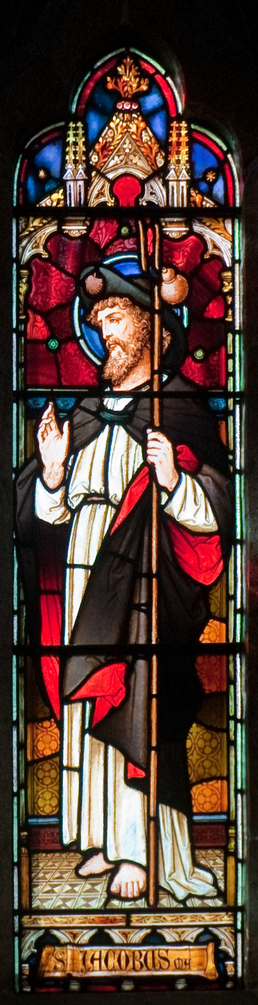 Right part of the fourth stained glass window in the west aisle (left from the nave if coming from the main entrance in the south), depicting the Apostle James the Greater. Augustus Pugin (1812–1852) Alternative names Augustus Welby Northmore Pugin; A. W. N. PuginDescriptionBritish architectDate of birth/death 1 March 1812 14 September 1852 Location of birth/death Bloomsbury RamsgateWork location United Kingdom Authority control : Q313288 VIAF: 17247761 ISNI: 0000 0000 8096 1987 ULAN: 500008414 LCCN: n50027100 NLA: 35435757 WorldCat creator QS:P170,Q313288